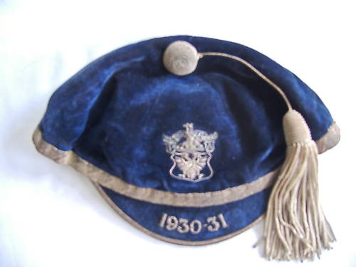 Cap awarded to a Perth Academy, Scotland schoolboy in the 1930s for achievement in sport